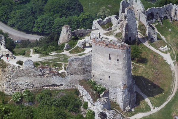 Čachtice Castle, Slovakia, aerial photography